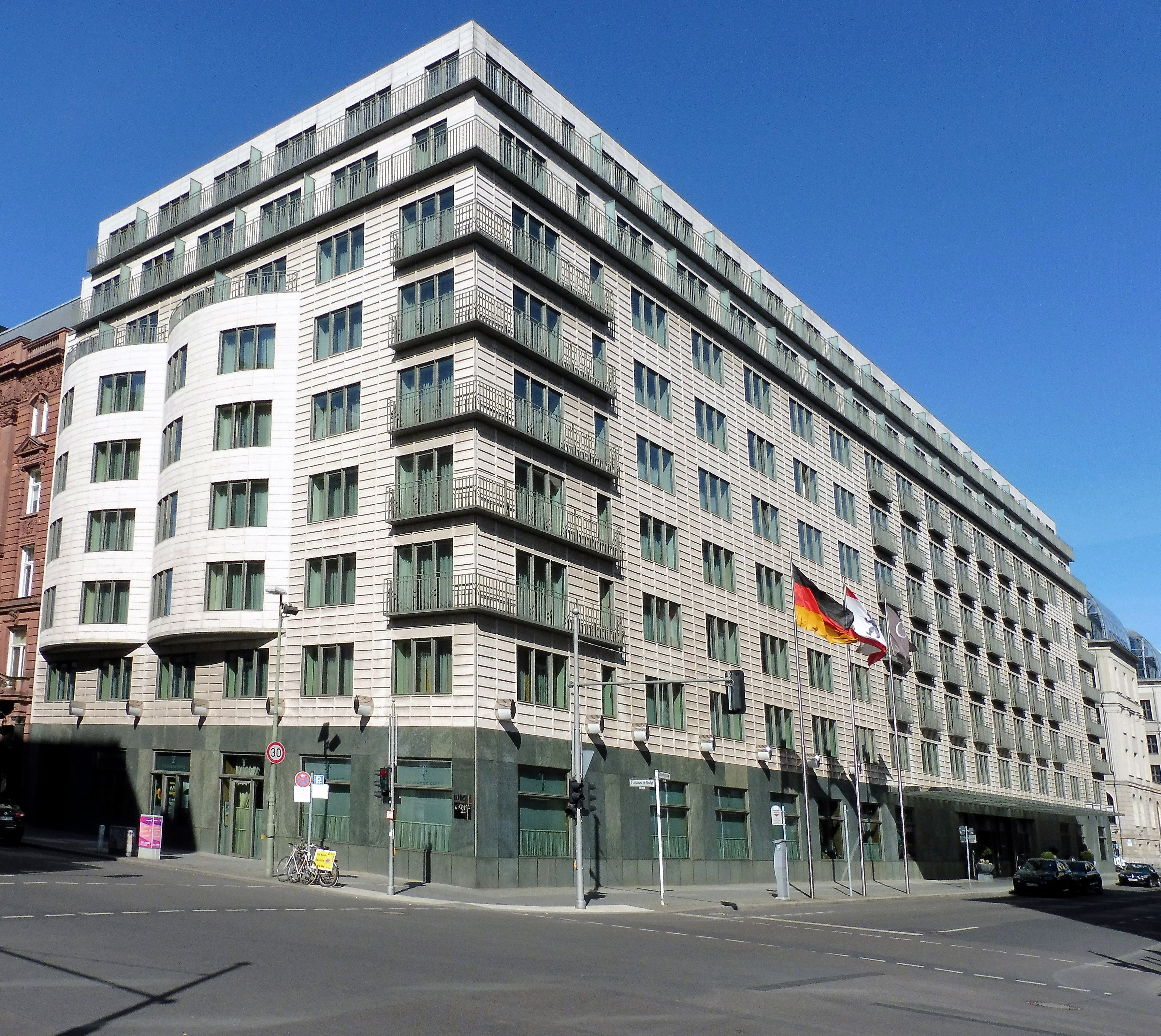 Hotel Regent Berlin